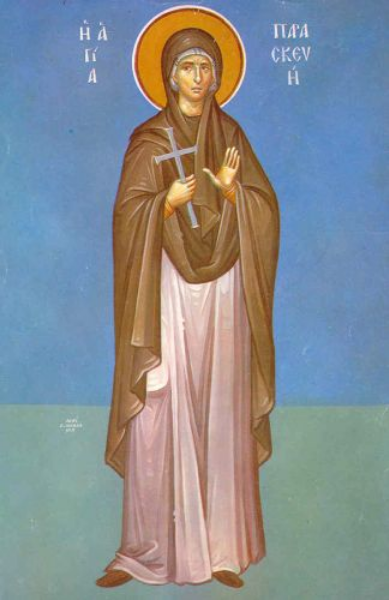 Parascheva of the Balkans